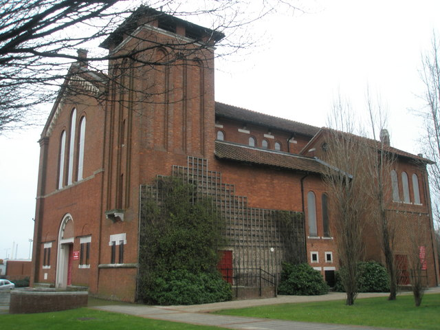 Former naval store! Incredible though it seems it was used as such from 1954 until the mid 90s.